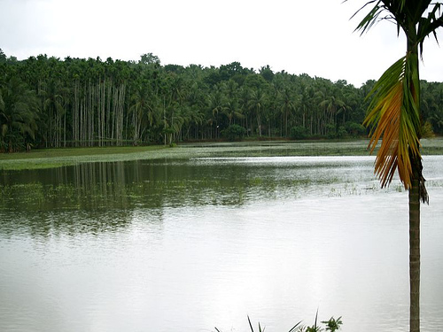 ManCite error: Invalid tag; refs with no name must have contentjeri is the big and oldest town in Malappuram district, Malappuram district, Kerala